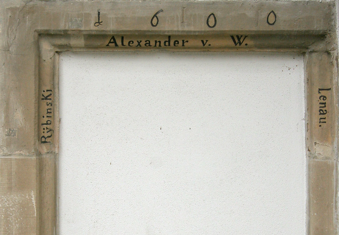 Inscription at the Alexanderhäuschen in Weinsberg